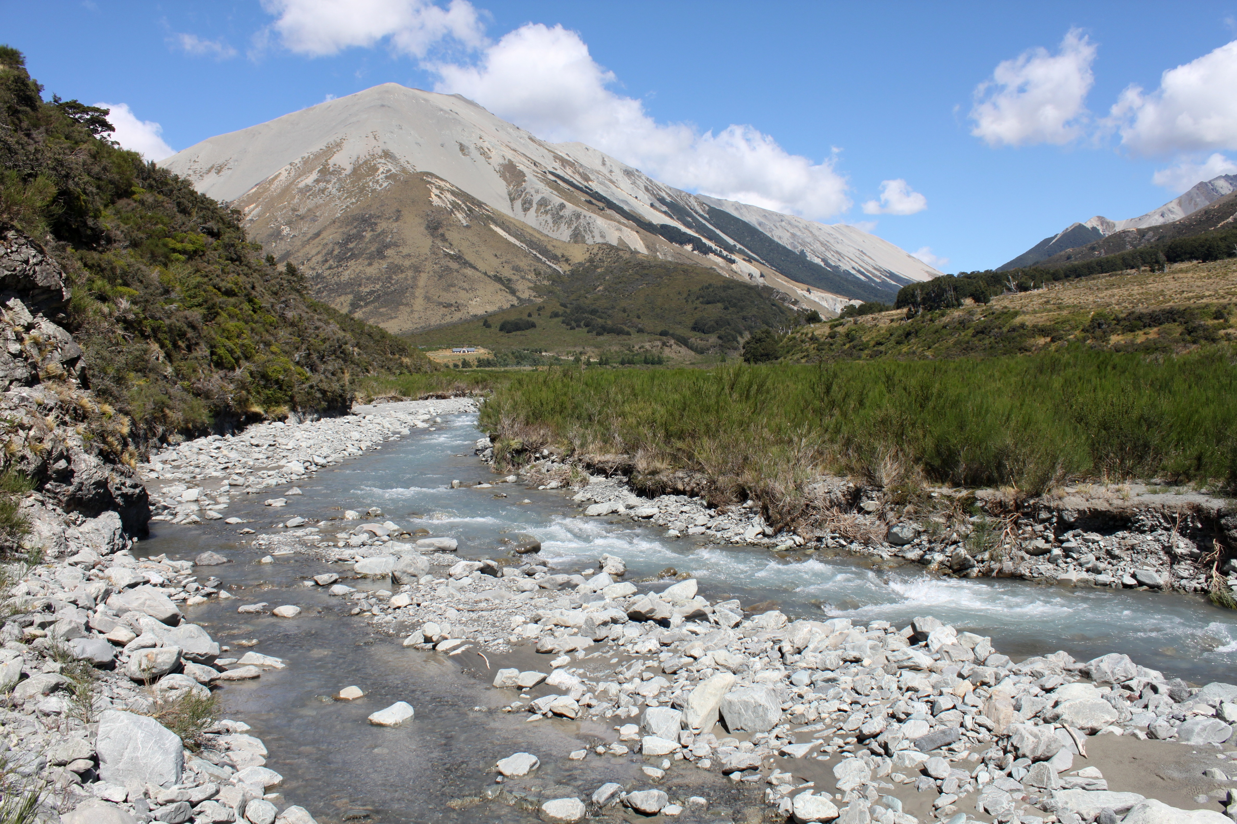 View up the Cass River.